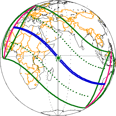 Solar eclipse map of path on earth. Solar eclipse of October 18, 1830 BC